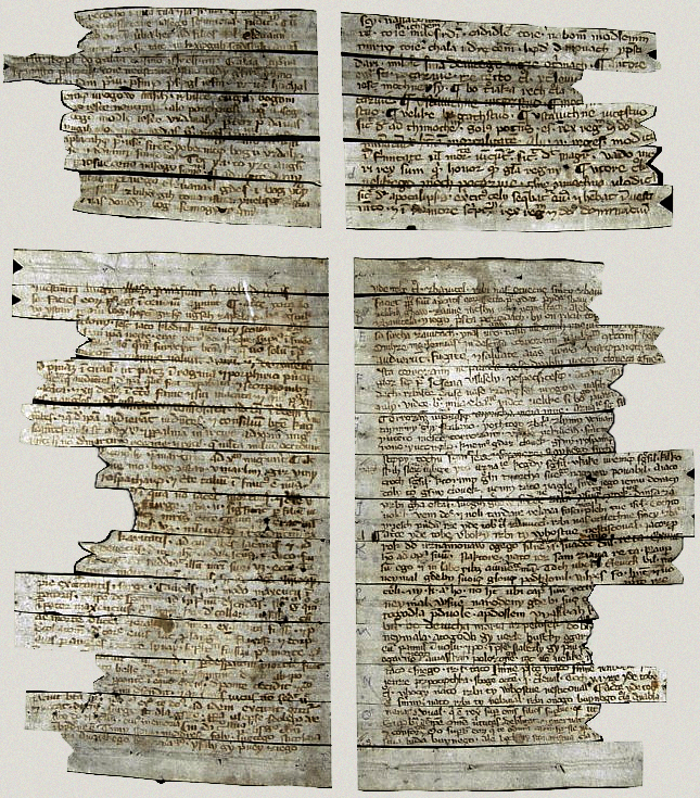 The Holy Cross Sermons